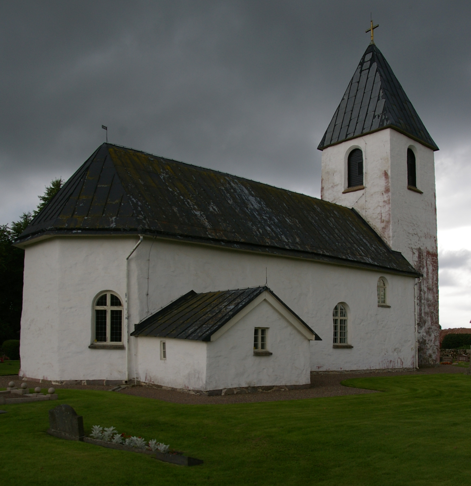 Sörby kyrka (Swedish:Church of Sörby) in Västergötland, Sweden.